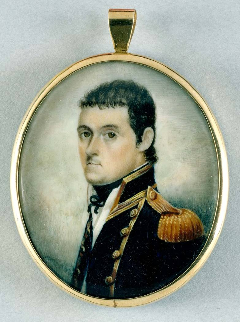 Watercolour miniature portrait of British navigator Matthew Flinders, dated about 1800.